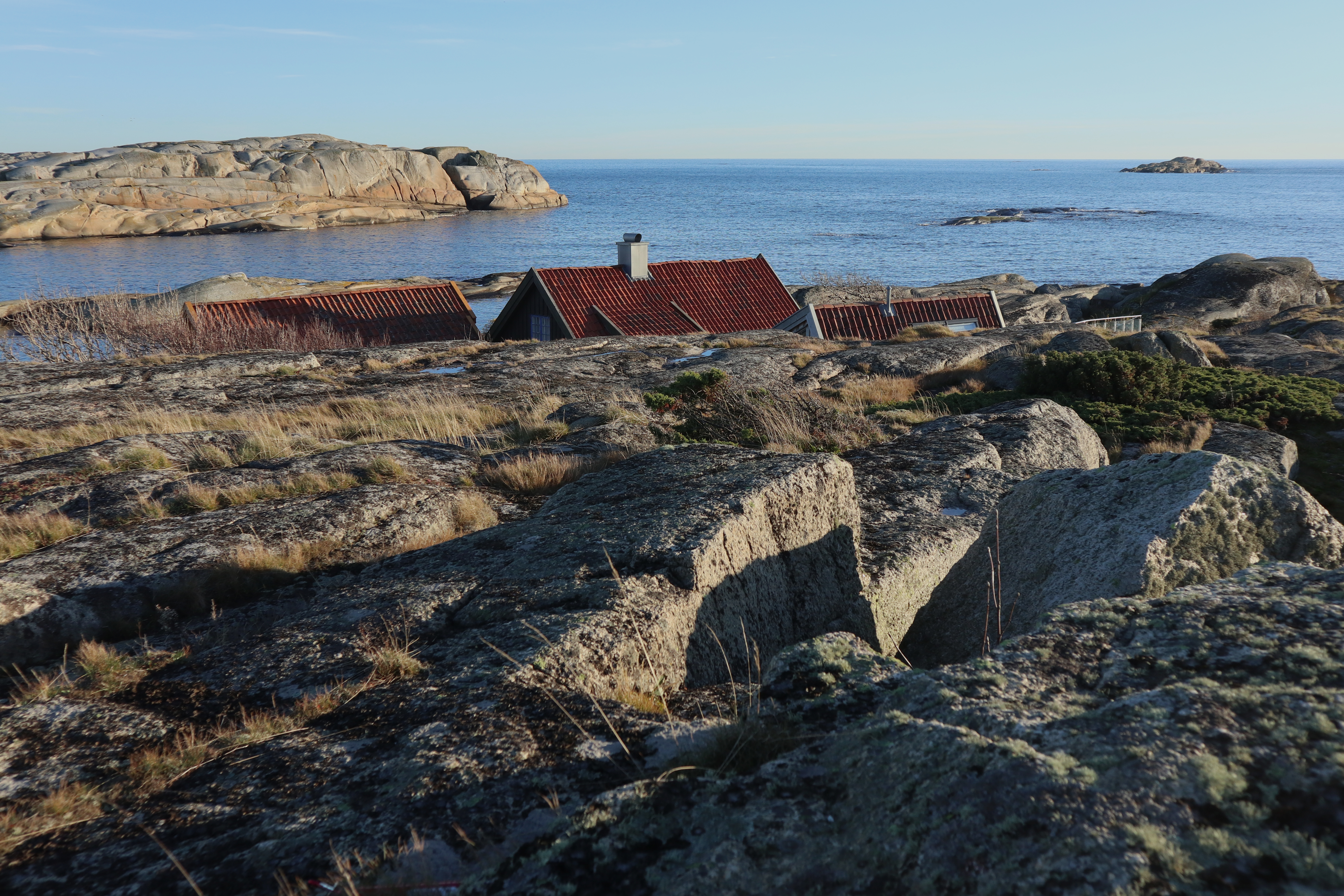 Humlesekken